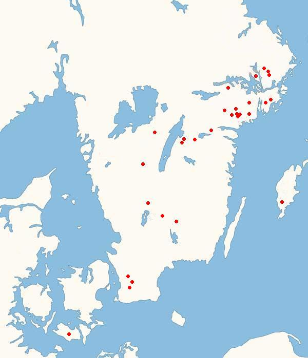 Viking runestone distribution map